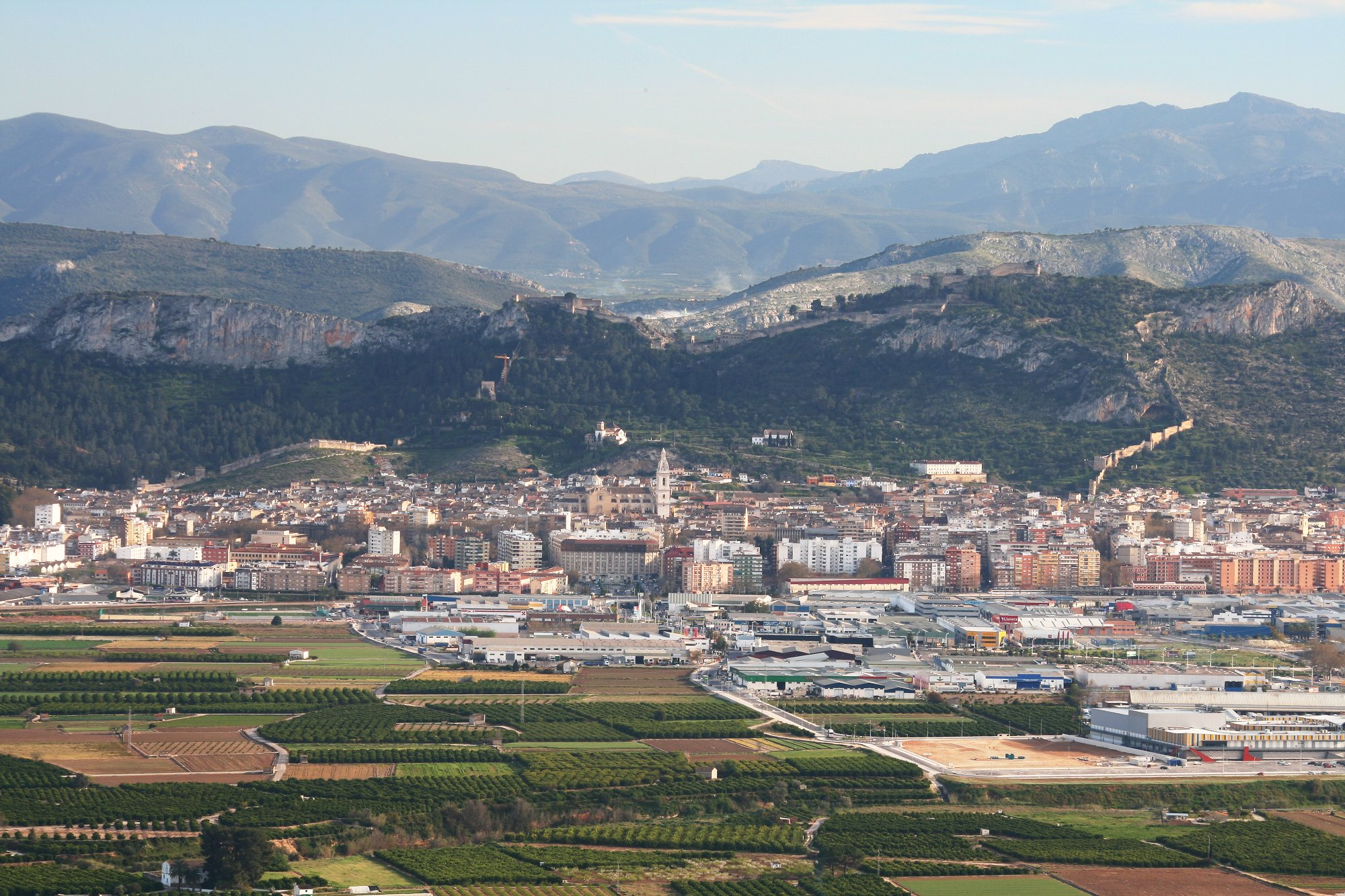 City view of Xativa with castle and mountains behind